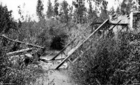 ID Number: H00914 Maker: Unknown Place made: Palestine: Mejdel Jaffa Area, Jaffa Physical description: Black & white Summary: A broken bridge which had spanned the Nahr Auja, a fine permanent stream which falls into the Mediterranean a few miles north of Jaffa. Copyright: Copyright expired - public domain Copyright holder: Copyright Expired Related subject: Bridges Related conflict: First World War, 1914-1918